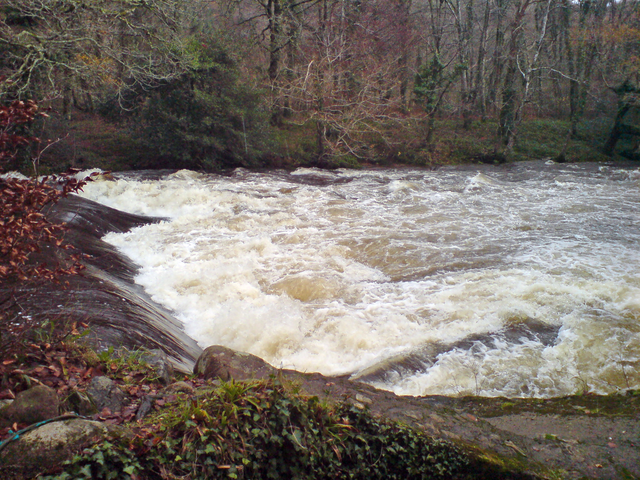 Author: Jamsta